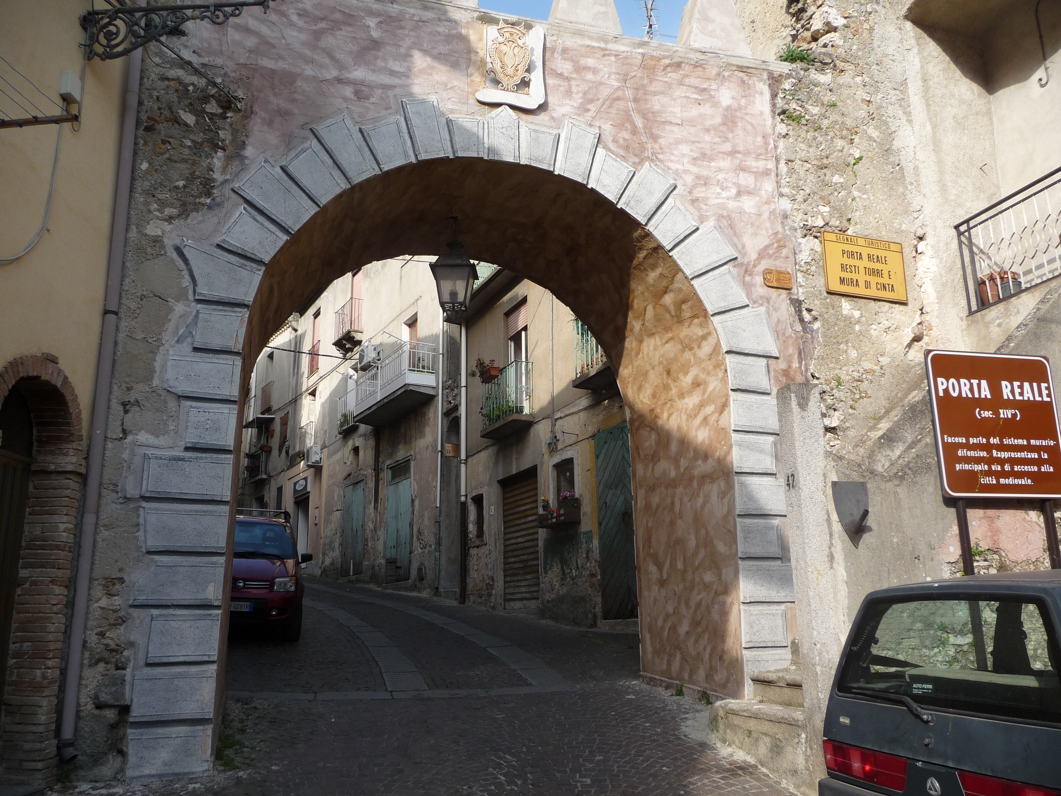 Ancient Real Gate in Stilo